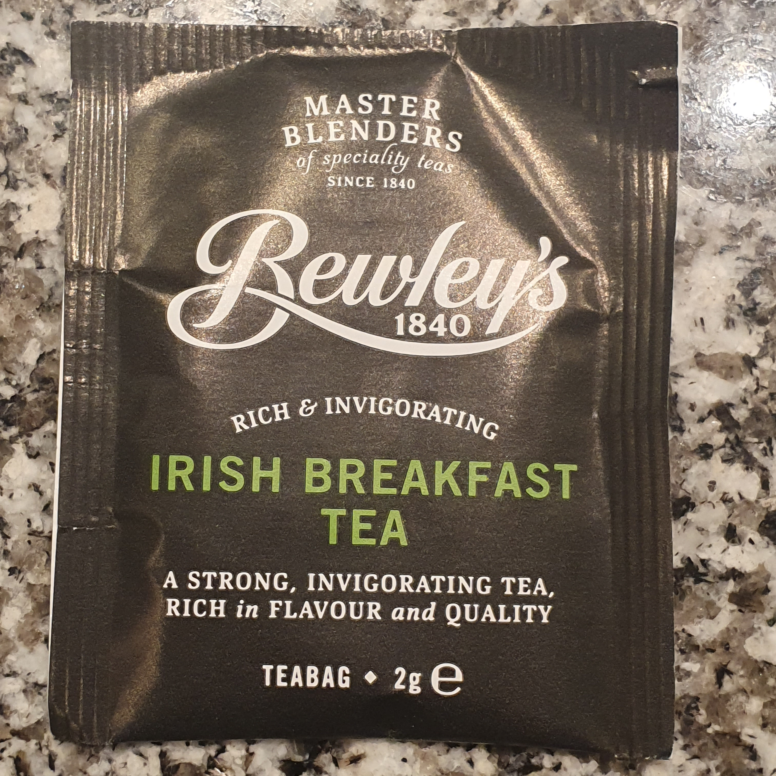 Bewley's brand Irish breakfast tea bag packaging.